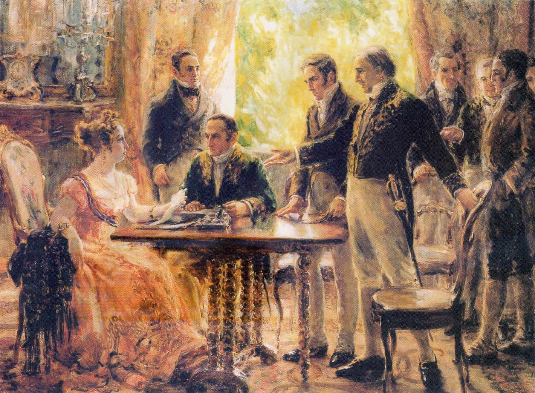 Archduchess Maria Leopoldina of Austria, acting as regent on behalf of her husband Prince Pedro (later Emperor Pedro I of Brazil) during the 2 Septembeer 1822 meeting with the Council of Ministers as well as other important characters. It was decided to support the independence of Brazil and thus they sent a messenger to Prince Pedro who was then in São Paulo province, leading to the Grito do Ipiranga in 7 September.